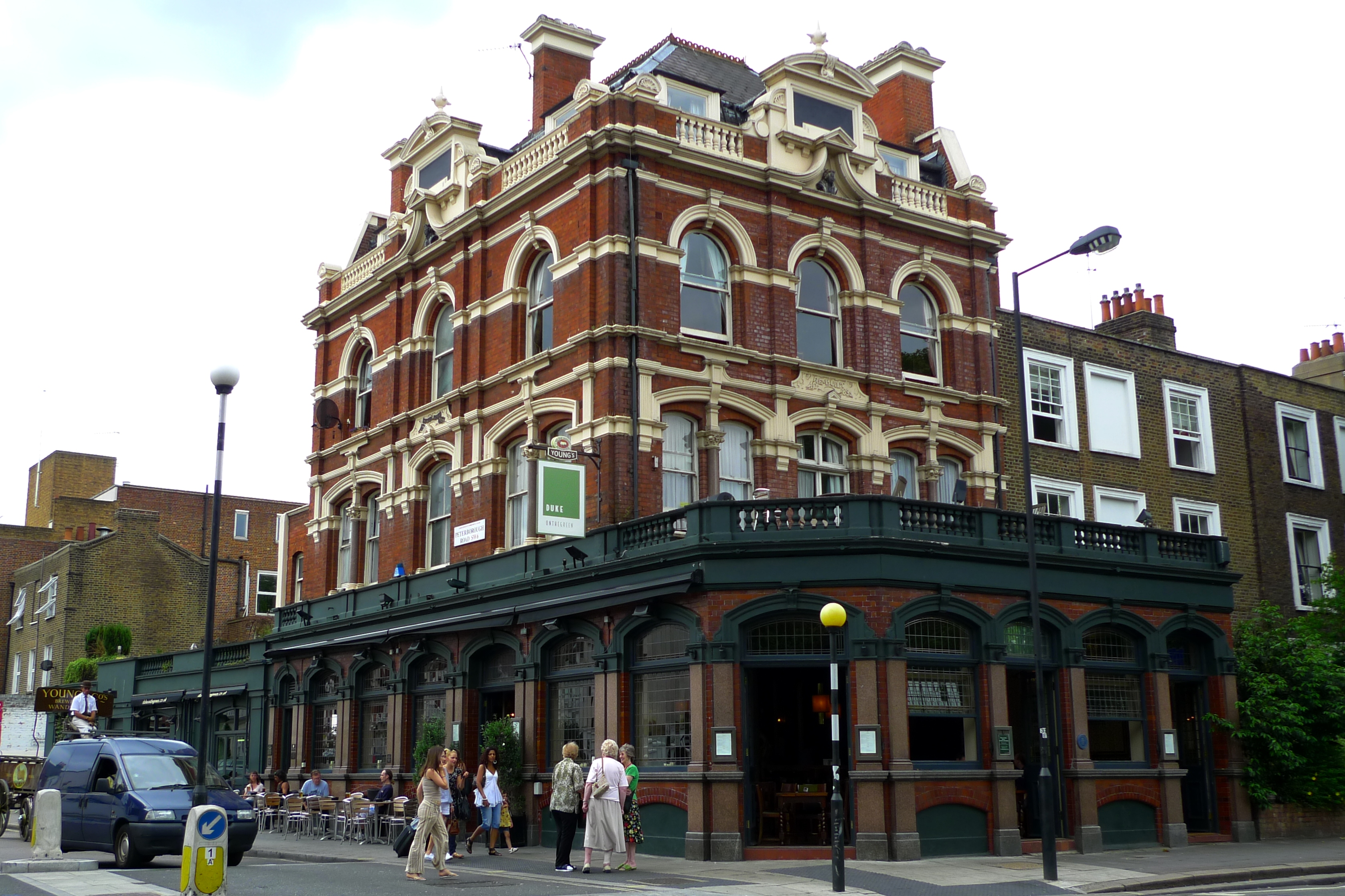 Large pub overlooking Parsons Green. (It was in the Good Beer Guide for many years as the Duke of Cumberland.) Address: 235 New Kings Road. Former Name(s): The Duke of Cumberland; The Duke's Head; The Pond Head (on the same site).. Owner: Young's (website and Young's website). Links: Fancyapint Beer in the Evening Qype Dead Pubs (history)